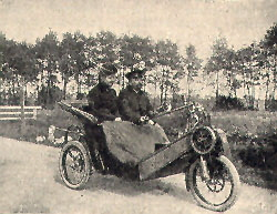 German couple on a ride in a Cyklon Cyklonette